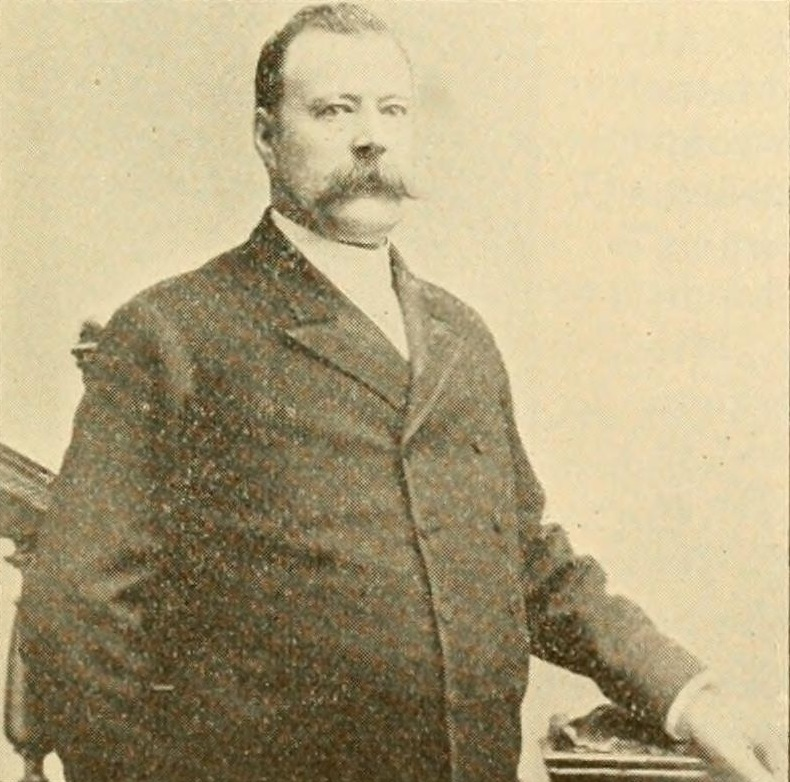 Samuel C. Hyde (Washington State Congressman)